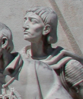 Effigy of Cristóvão da Gama (c. 1516-1542), Portuguese military commander, in the Padrão dos Descobrimentos (Monument to the Discoveries), in Lisbon, Portugal.